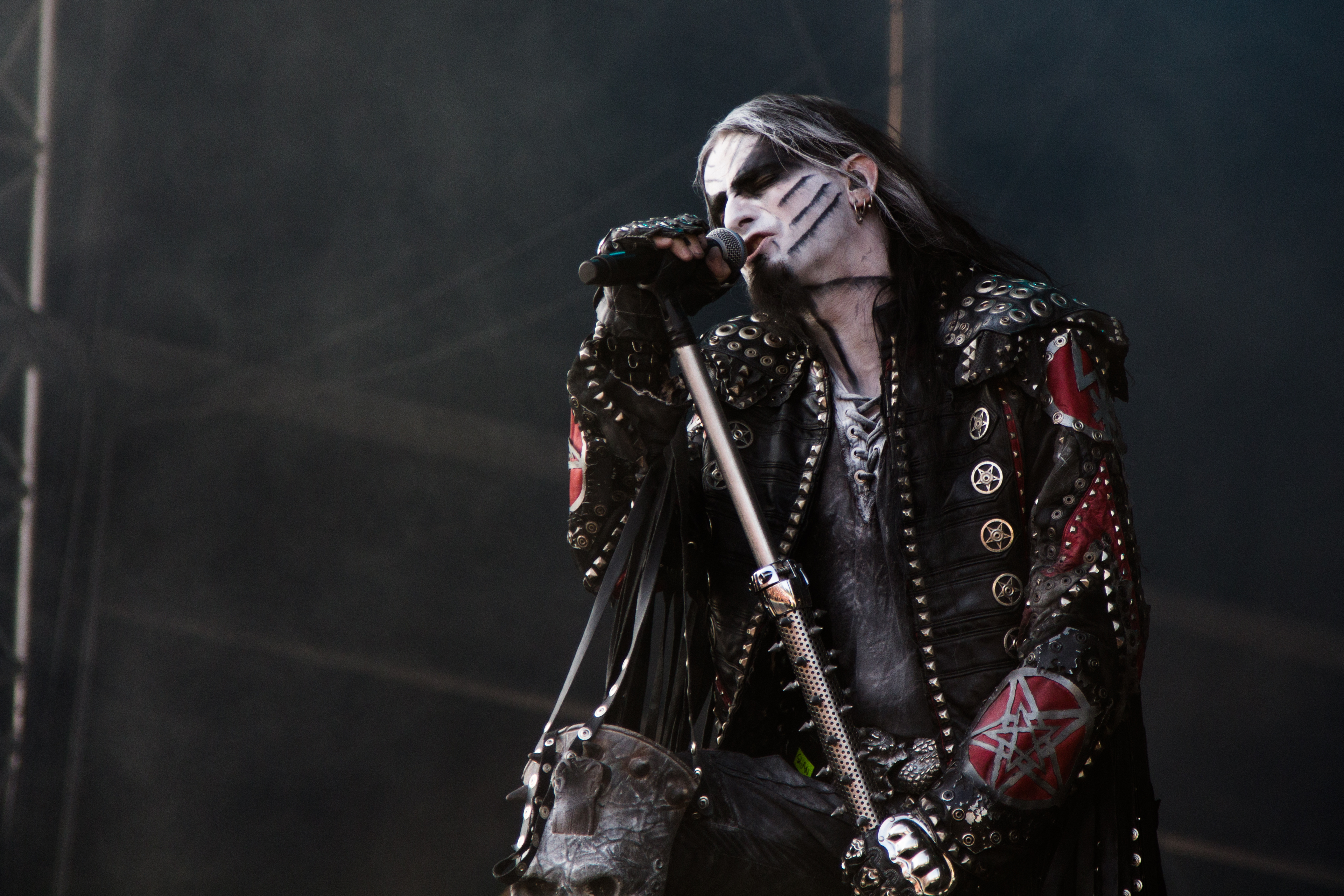 Stian Tomt "Shagrath" Thoresen from Dimmu Borgir at the See-Rock Festival 2014